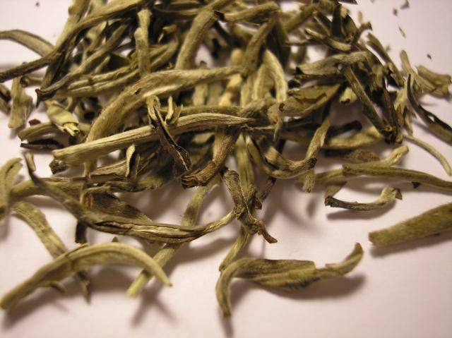 This is Zheng He Bai Hao Yinzhen. Scale is the length of the leaf is approx 30mm.